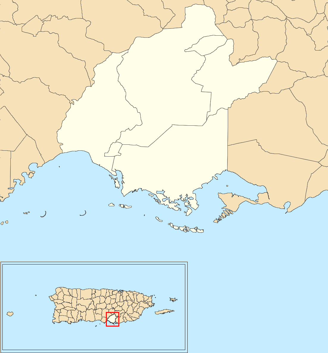 Barrios in the municipality. Map scale is 1:200,000